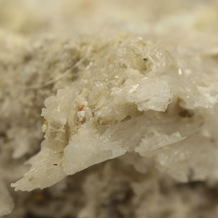 Locality: Larderello, Pomarance, Pisa Province, Tuscany, Italy Dimensions: 6.1 cm x 3.7 cm x 2.2 cm An incredibly rare specimen of the borate larderellite from the type locality in Italy, Larderello in Tuscany which dates back to 1854 according to the label (it was described in Dana 5th ed. as bechilite in 1868). Larderellite is only found in two localities in the world, both in Italy, and is nearly impossible to find on the market today. The larderellites are the small white translucent crystals. This is the only piece of this material we've had and it comes with a classic label from Josef Vajdák/Pequa Rare Minerals.